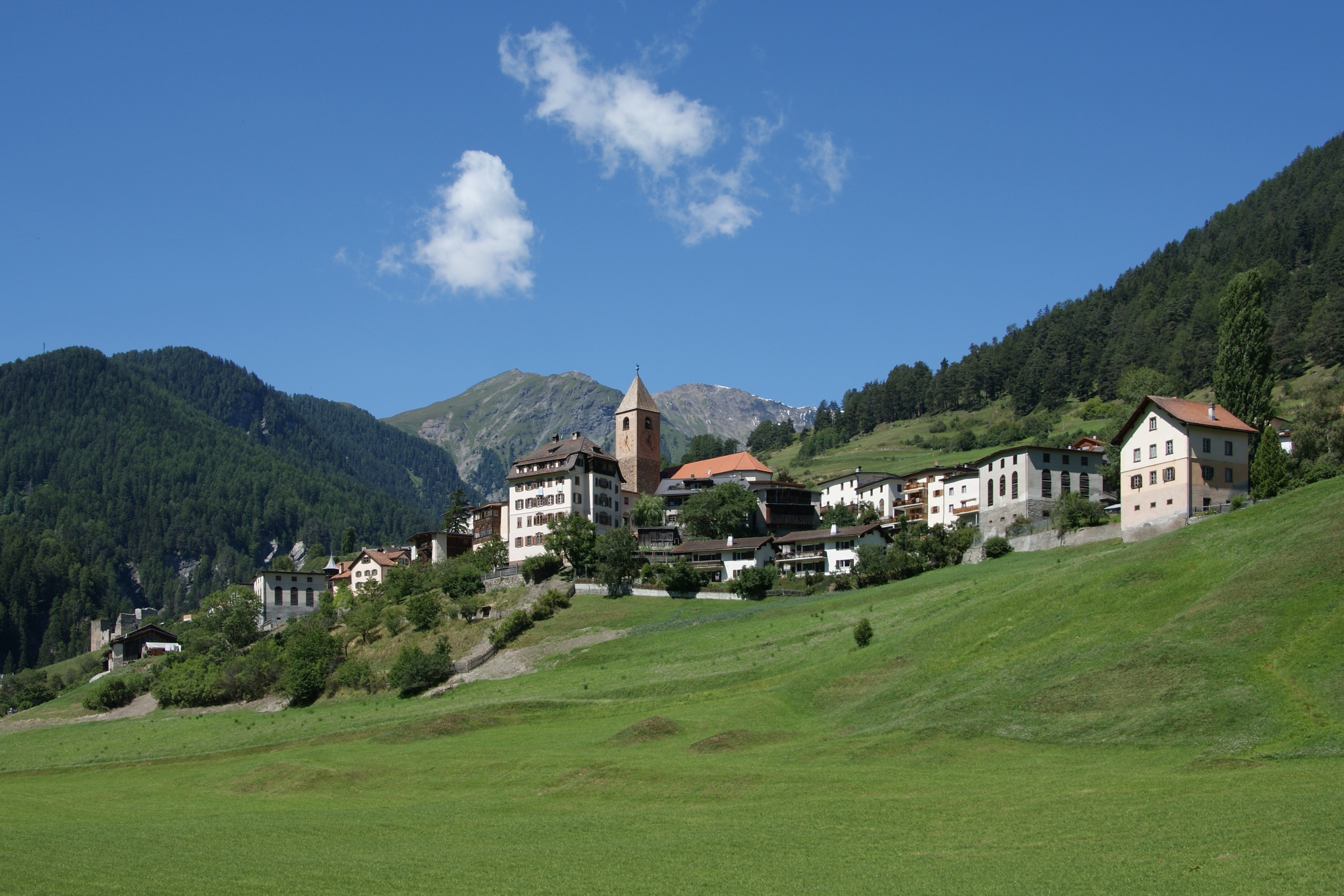 Ramosch, Lower Engadine